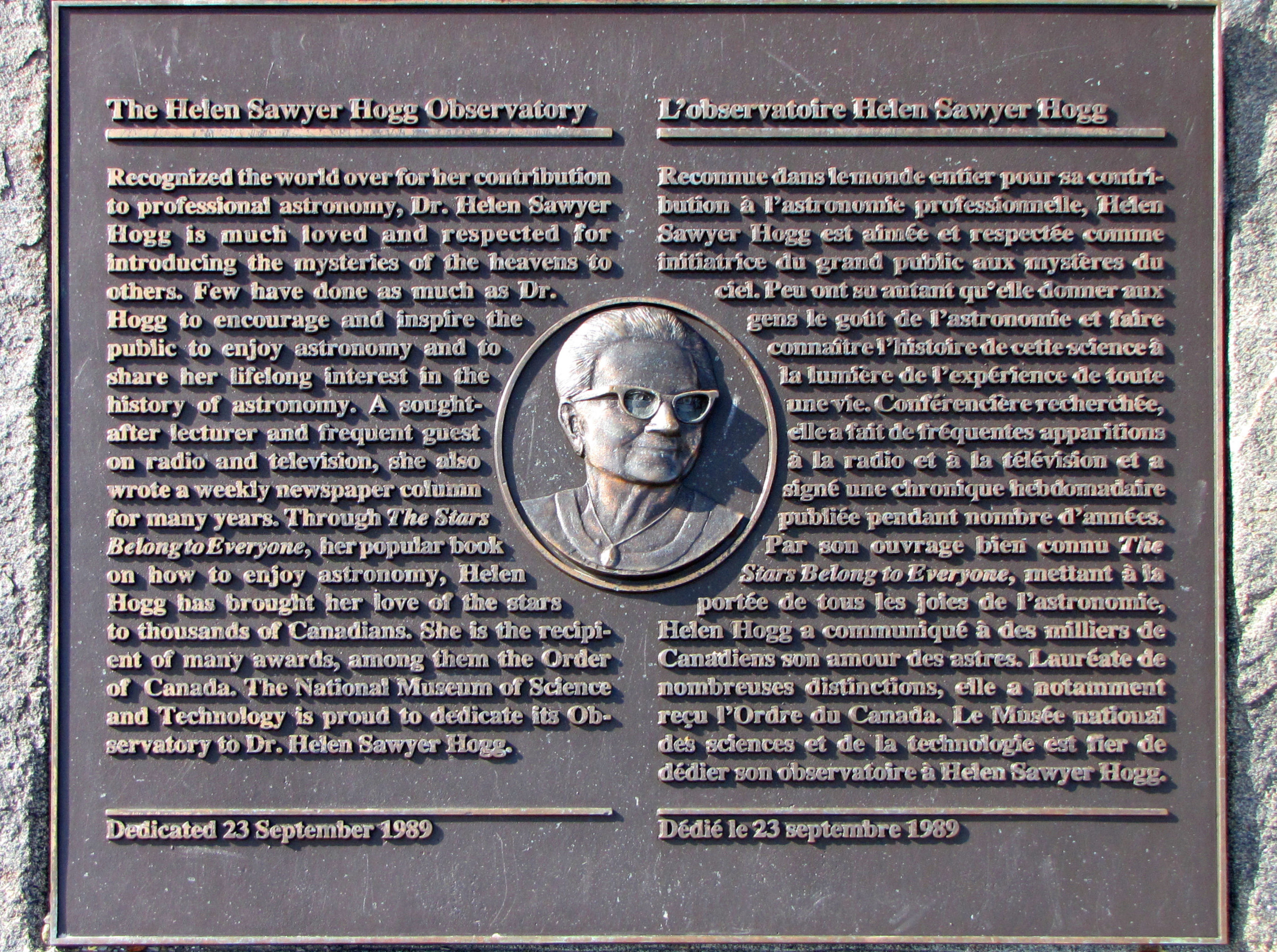 Canada Museum of Science and Technology, plaque to Dr. Helen Sawyer Hogg and observatory named after her